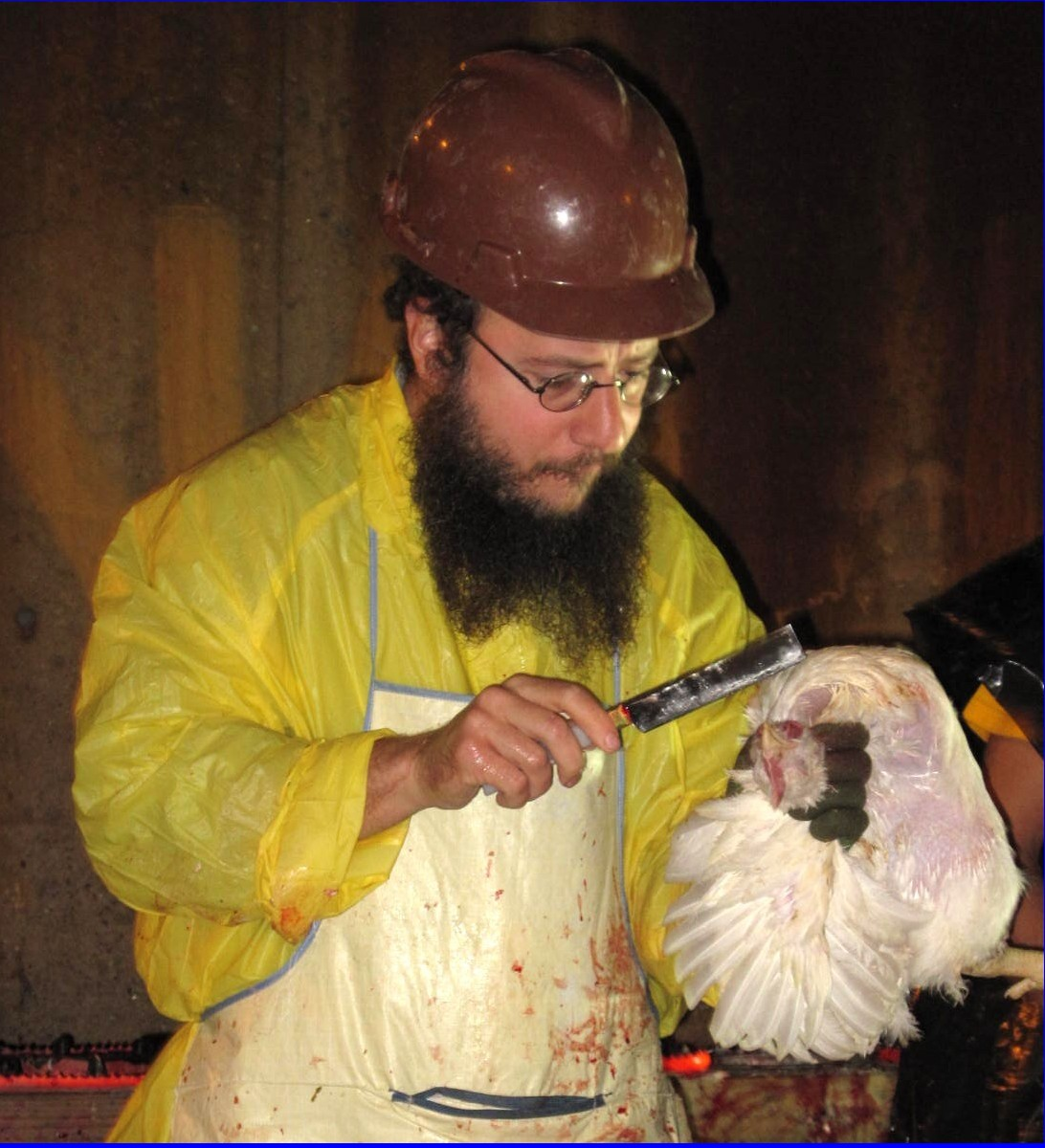 Rabbi Rimler Shechts a Kaparot chicken in Brooklyn, New York, on the eve of Yom Kippur, 5772